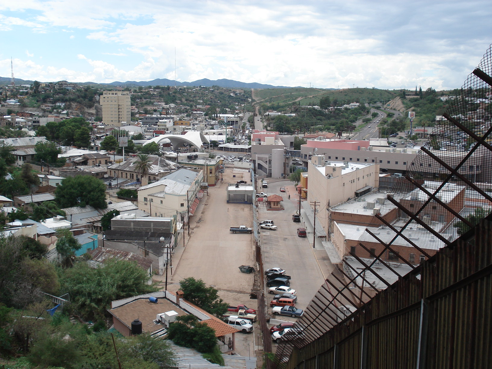 The pre-2011 U.S.-Mexico border fence dividing Nogales, Sonora (left), and Nogales, Arizona (right).